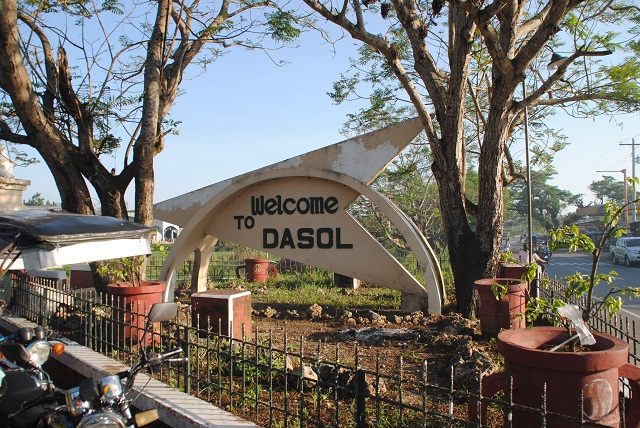 Dasol land mark